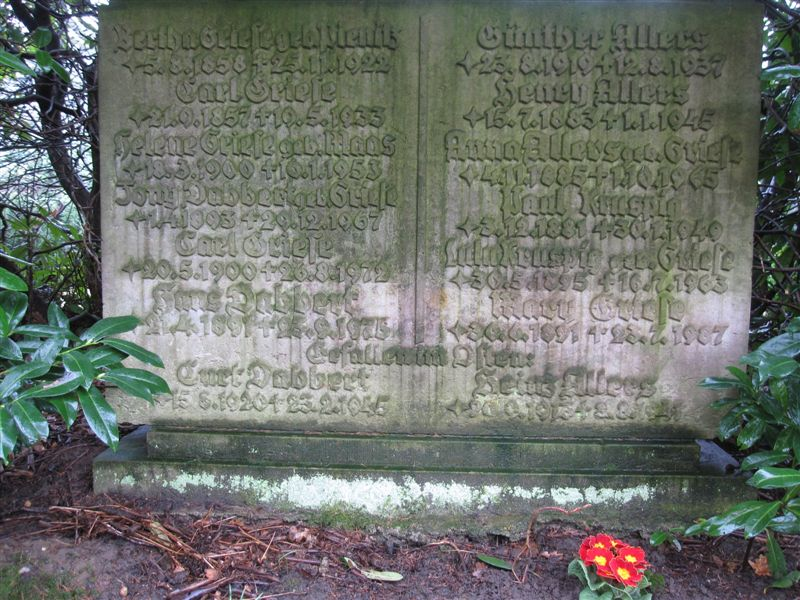 Tomb Stone of Carl Griese and family.